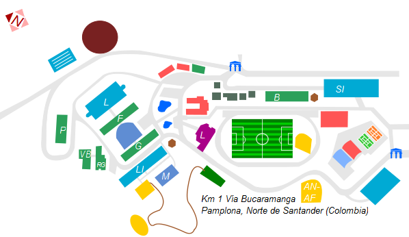 Map of University of Pamplona - Pamplona, Norte de Santander - COLOMBIA